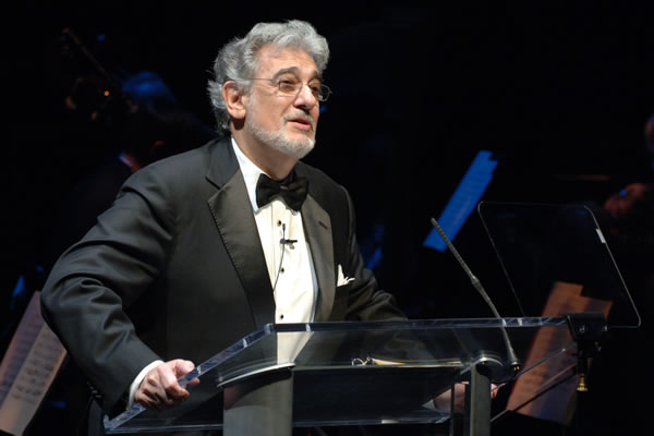 Plácido Domingo speaks at the National Endowment for the Arts Opera Honors on Friday, October 31, 2008 at the Harman Center for the Arts in Washington, DC